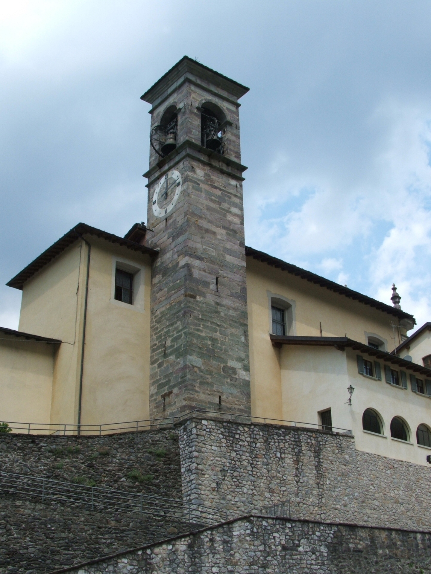 Branzi (BG), Lombardy, Italy - Church tower